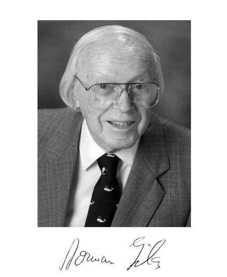 Formal Portrait of Norman Giles, published by National Academy of Sciences and linked to in Giles' obituary by the University of Georgia